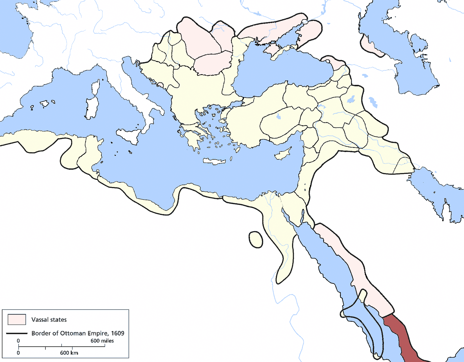 Yemen Eyalet, Ottoman Empire (1609). Source: Encyclopedia of the Ottoman Empire at Google Books By Gábor Ágoston, Bruce Alan Masters